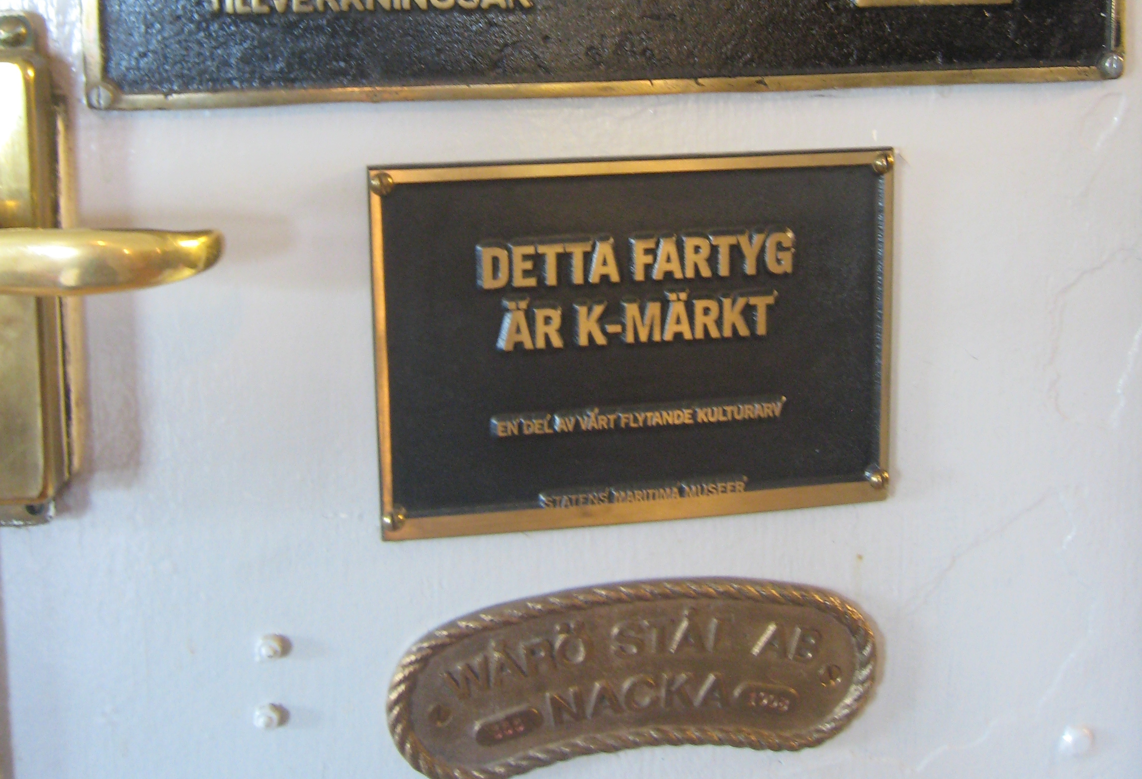 S/S Storskär